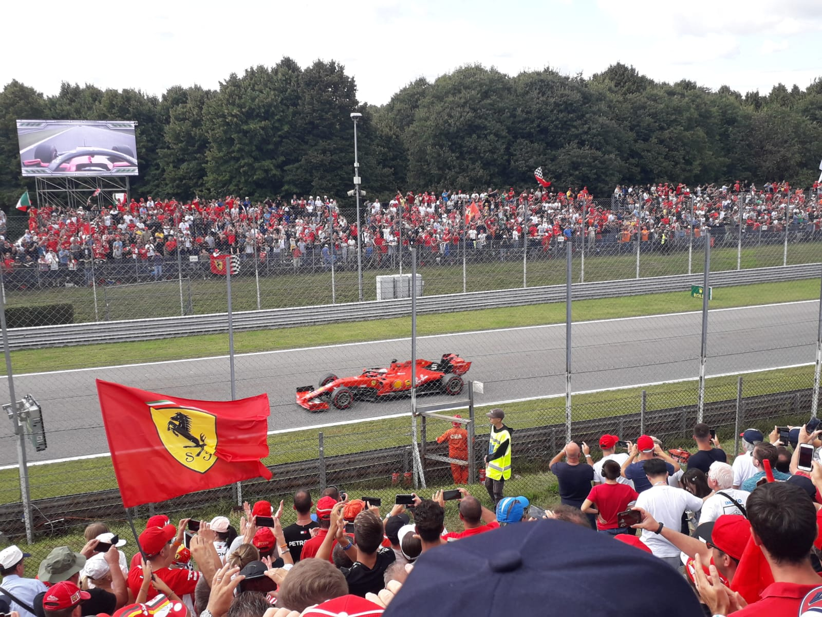 Sebastian Vettel at 2019 Italian GP in Monza.